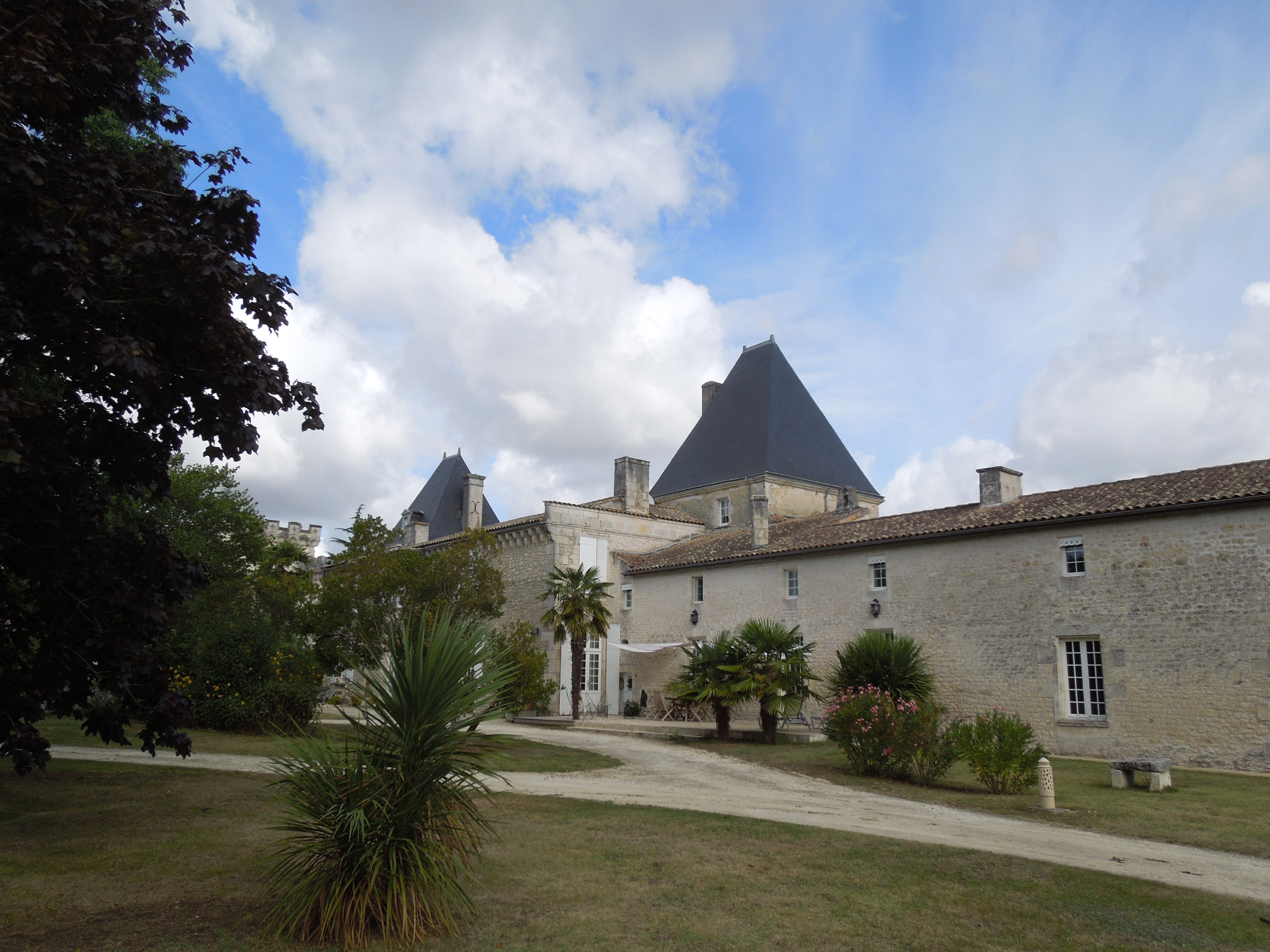 Mosnac, the Chateau de Favieres from the courtyard side, seen from the southwest